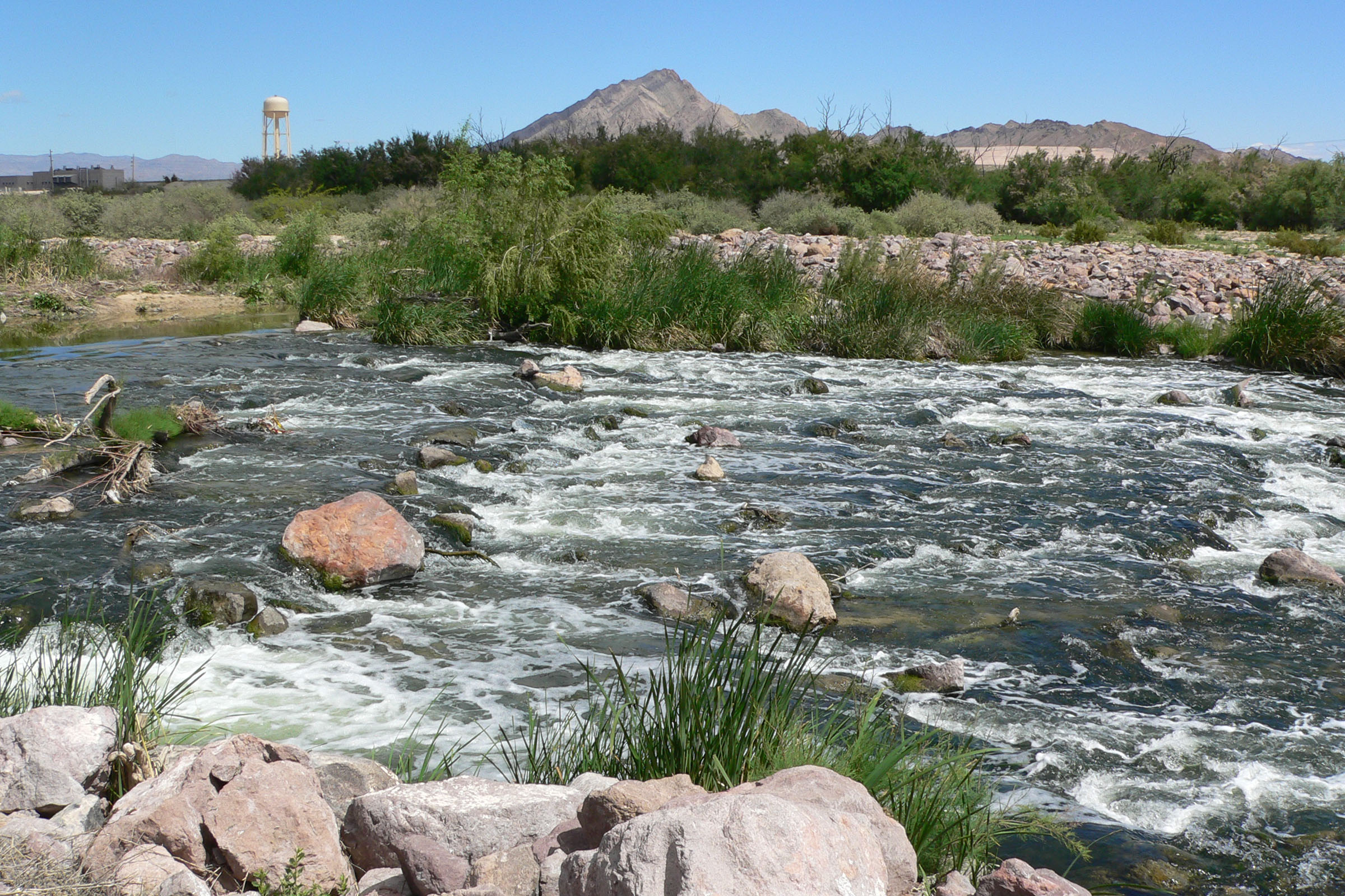 Las Vegas Wash in the Wetlands Park area, looking north with Frenchman Mountains visible in the distance